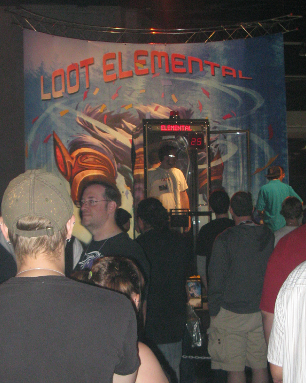 Loot Elemental game, Blizzcon 2009